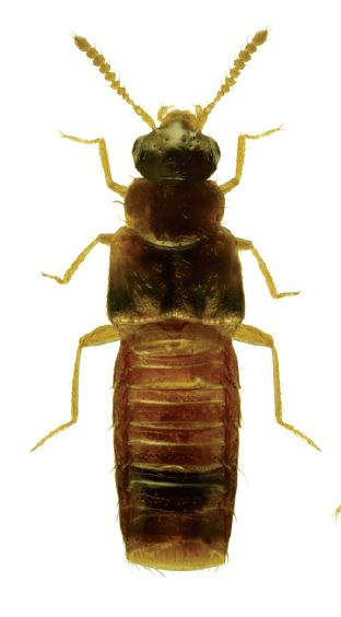 Dorsal view of Gyrophaena (G.) uteana (apical part of abdomen removed).